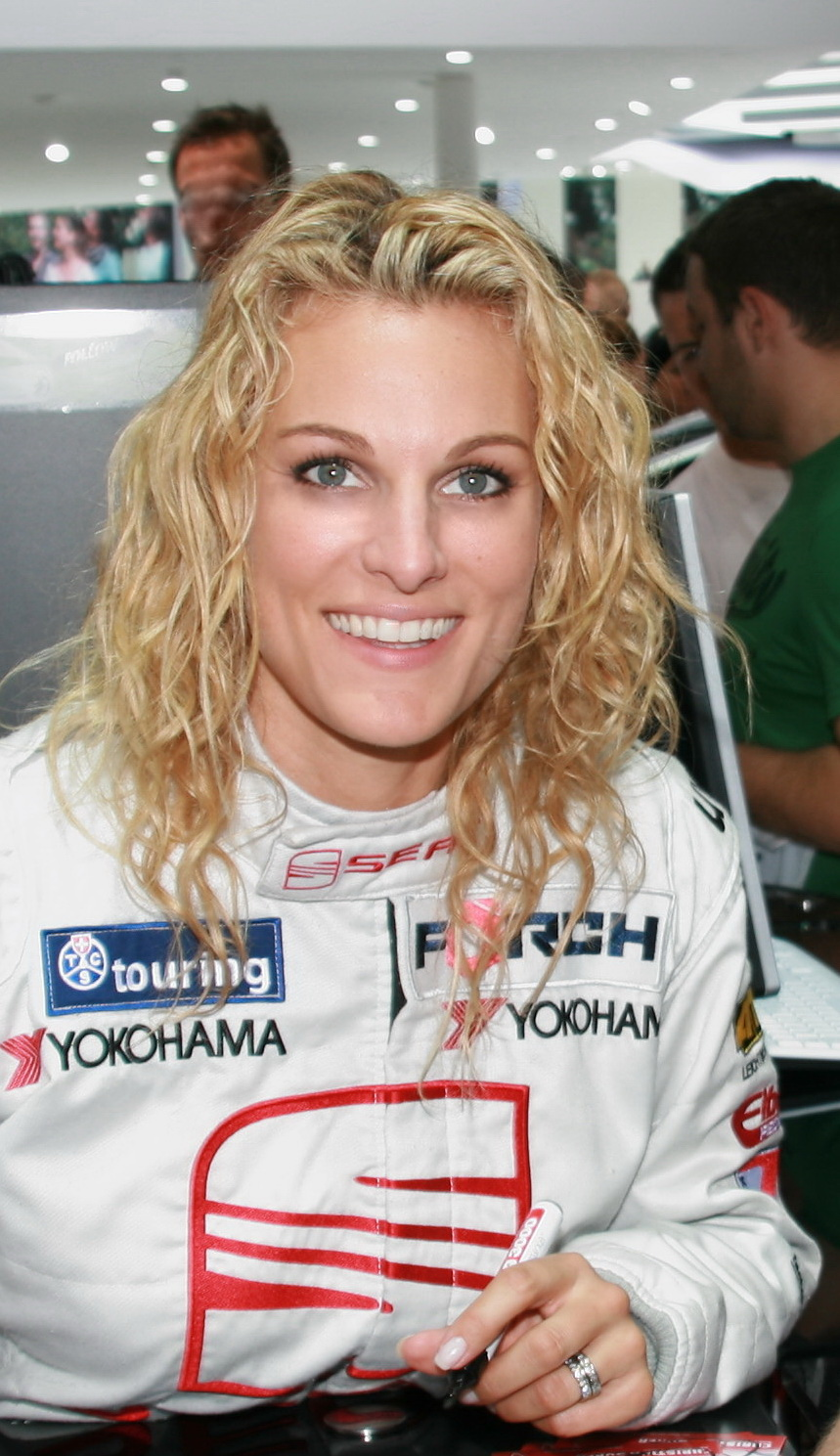 Christina Surer, automobile racer, moderator and Model